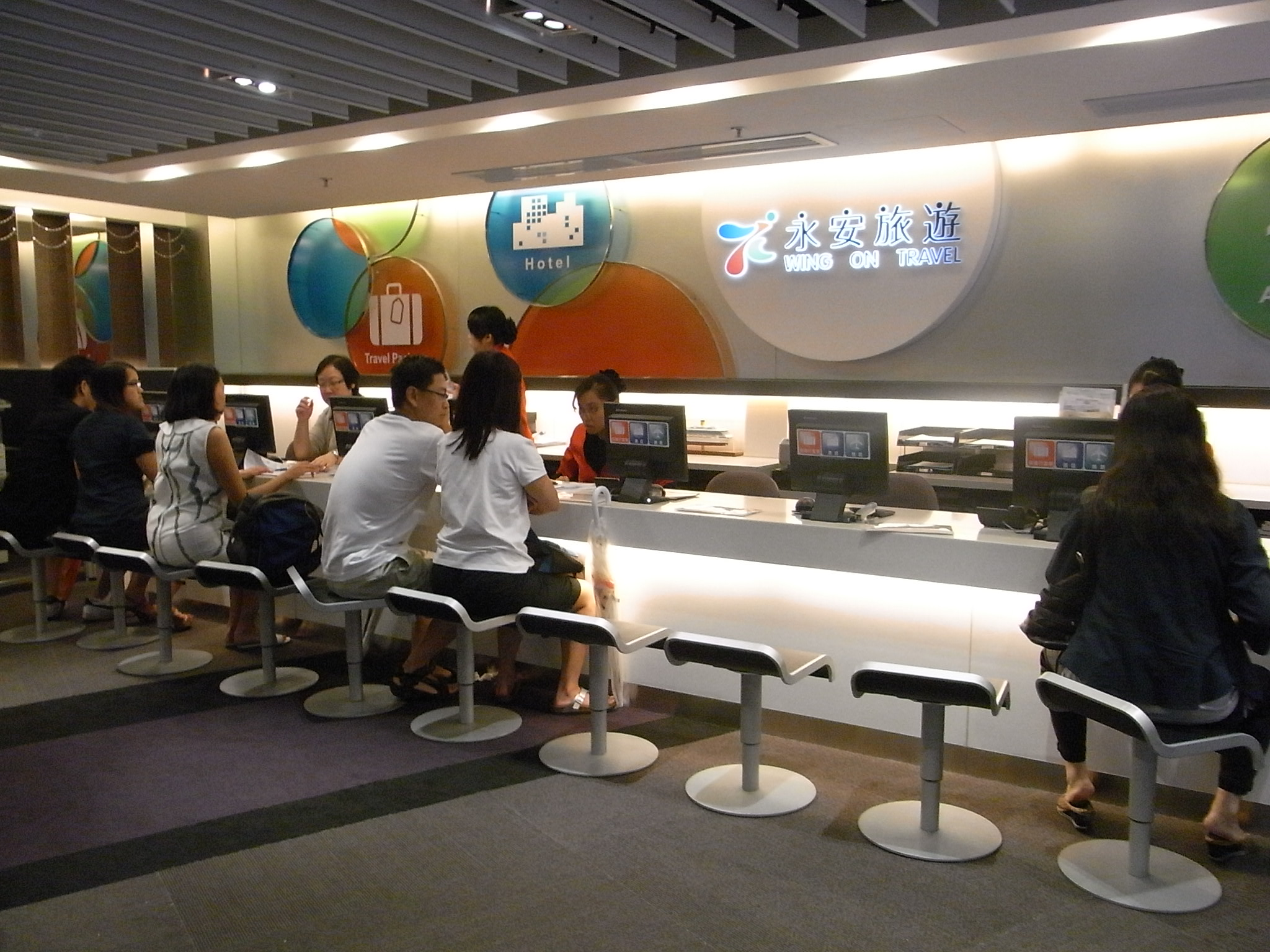 銅鑼灣恆隆中心 永安旅遊